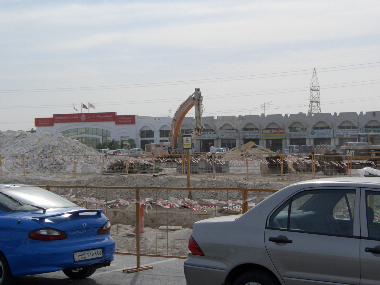 Building site in Al Gharrafa district of Al Rayyan Municipality, Qatar in 2005.